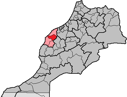 Location of the province Sidi Bennour within the region Doukkala-Abda, Morocco. In total, Moroco has 16 regions, subdivided into 62 provinces and 13 prefectures.